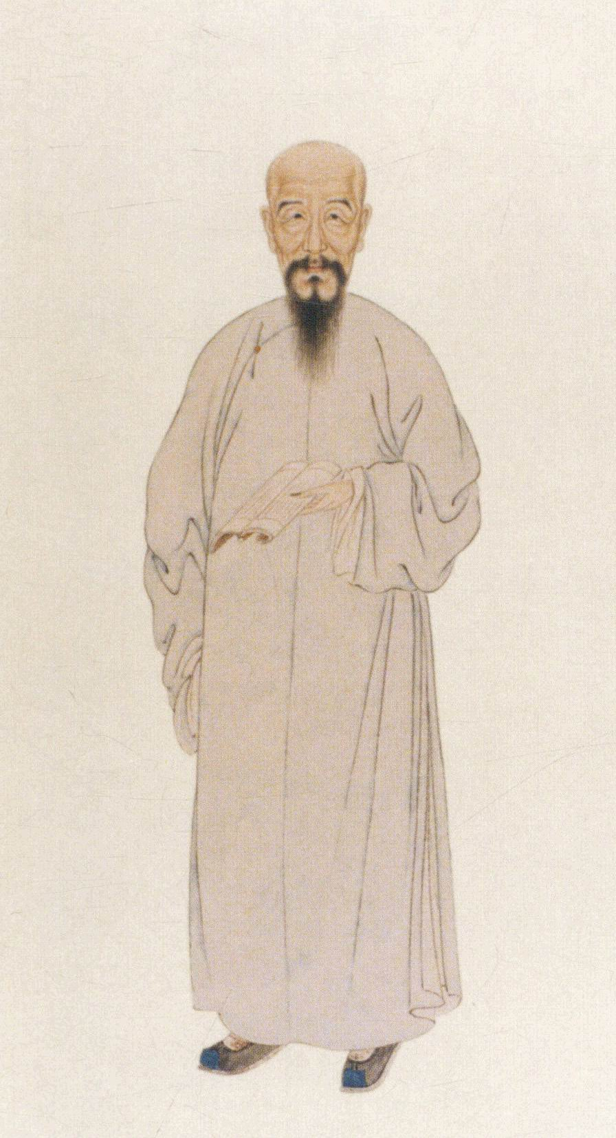 Quan Zuwang (1705-1755)